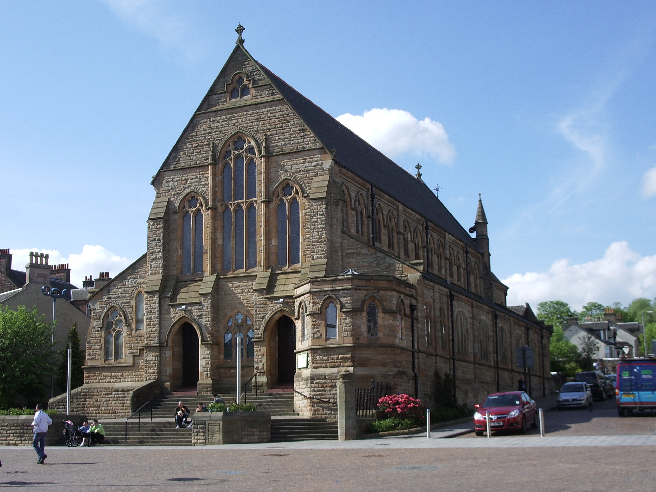 Saint Patrick's RC Church, Coatbridge. The oldest RC church in Coatbridge.